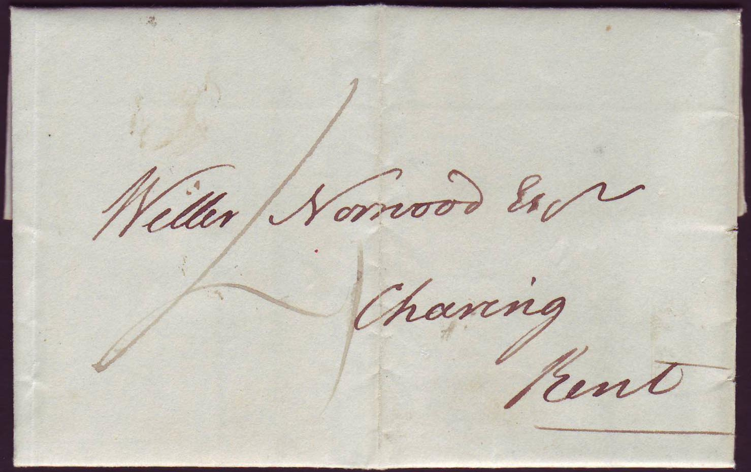 Last day use of Uniform Fourpenny Post used from Murston to Charing, Kent, with manuscript 4 mark